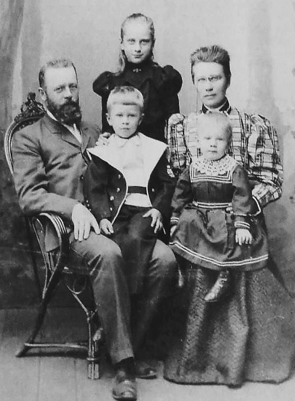 Karl Wilhelm Hagelin and Helga with Anna, Boris and Volodja